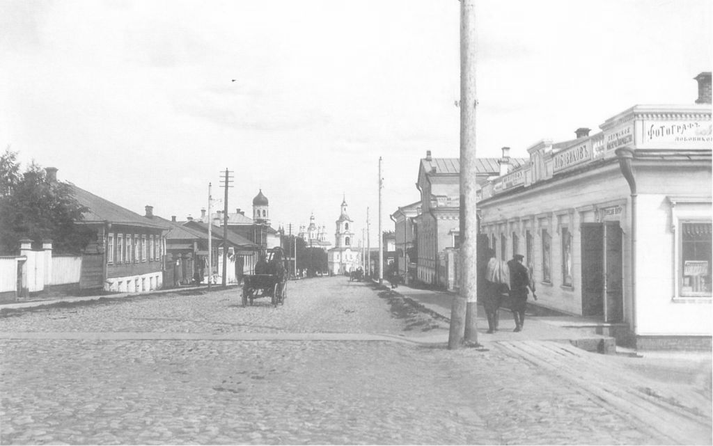 Old Vyatka